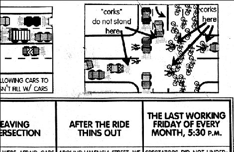 Flyer and graphic by Joel Pomerantz, November 20, 1992. Posted to Wikipedia by Joel Pomerantz: all my creative work is Creative Commons Attribution ShareAlike 2.5. Excerpted from